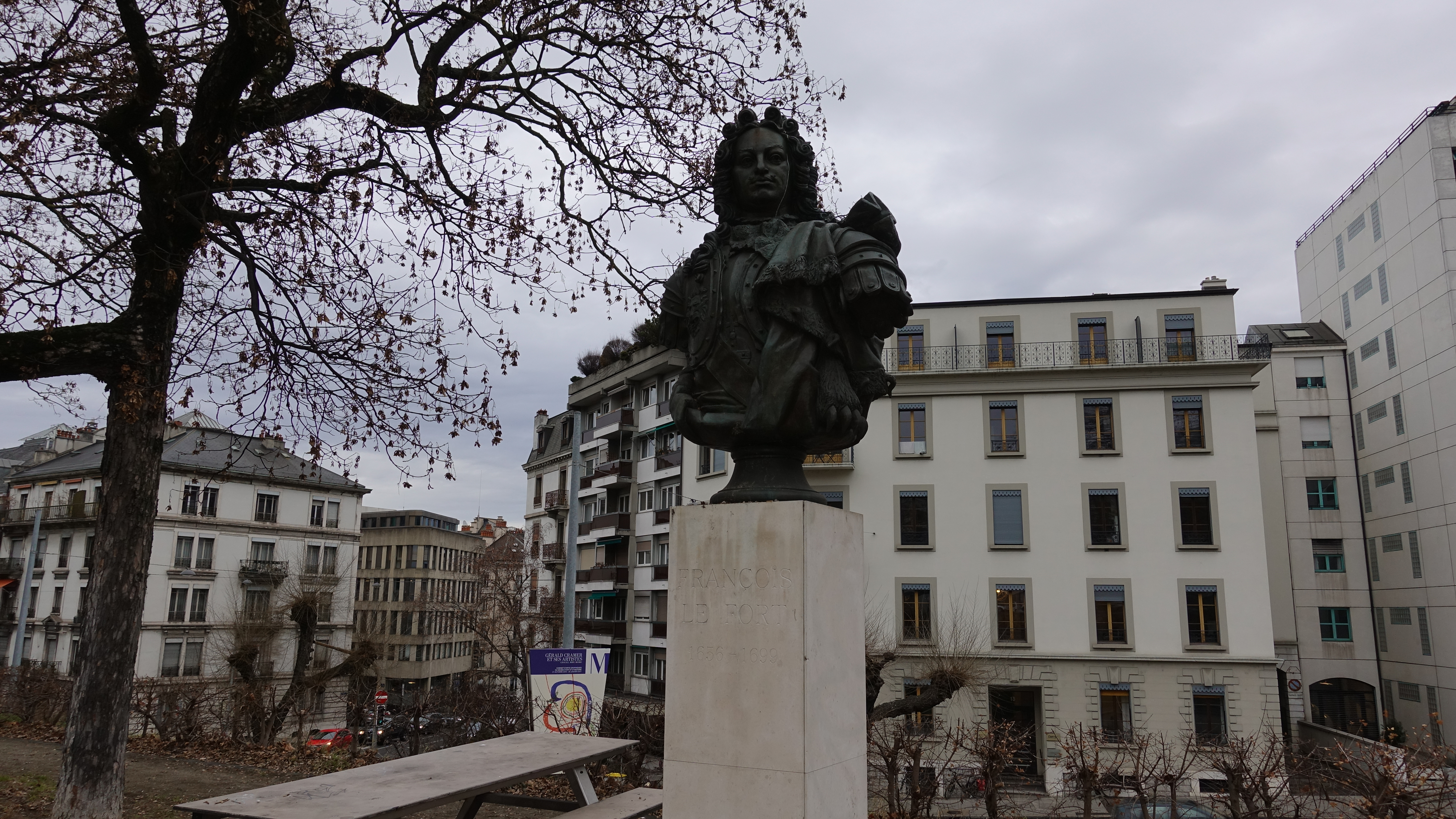 François Lefort monument in Geneva, Switzerland